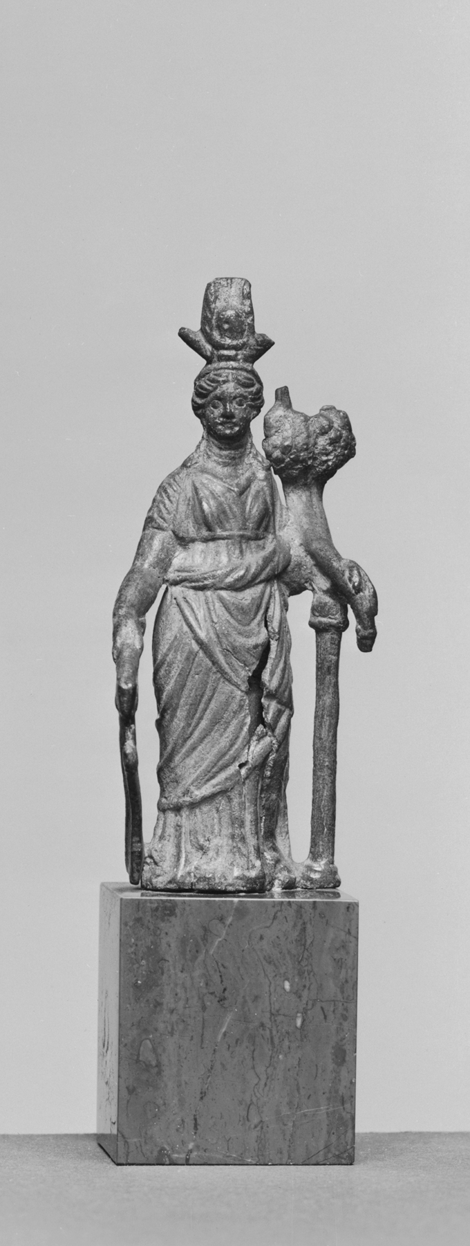 From the second half of the first millennium BC the goddess Isis became more and more popular outside Egypt. Particularly during the Roman period, she was worshipped as a goddess who unites all other goddesses in herself. In the Ptolemaic period Isis received Hellenistic iconography in addition to her Egyptian iconography. She was the only Egyptian goddess to receive such a second "outfit." The reason, most likely, was her increasing popularity in the Hellenistic and Roman world. This statuette of Isis displays her in a Hellenistic robe. She has a combination of cow horns, sun-disk, and ears of corn as a crown on her head, a cornucopia in her left arm, and a ship's rudder in her right hand. The cornucopia connects her to the goddess Fortuna, and the ears of corn to Demeter. The rudder stresses the aspect of Isis as patron of navigation, called Isis Pelagia. However the most important attribute is the cornucopia, which because of its size needed an additional support in the form of an extra pillar below the elbow of the goddess.